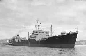 RFA WAVE CONQUEROR underway